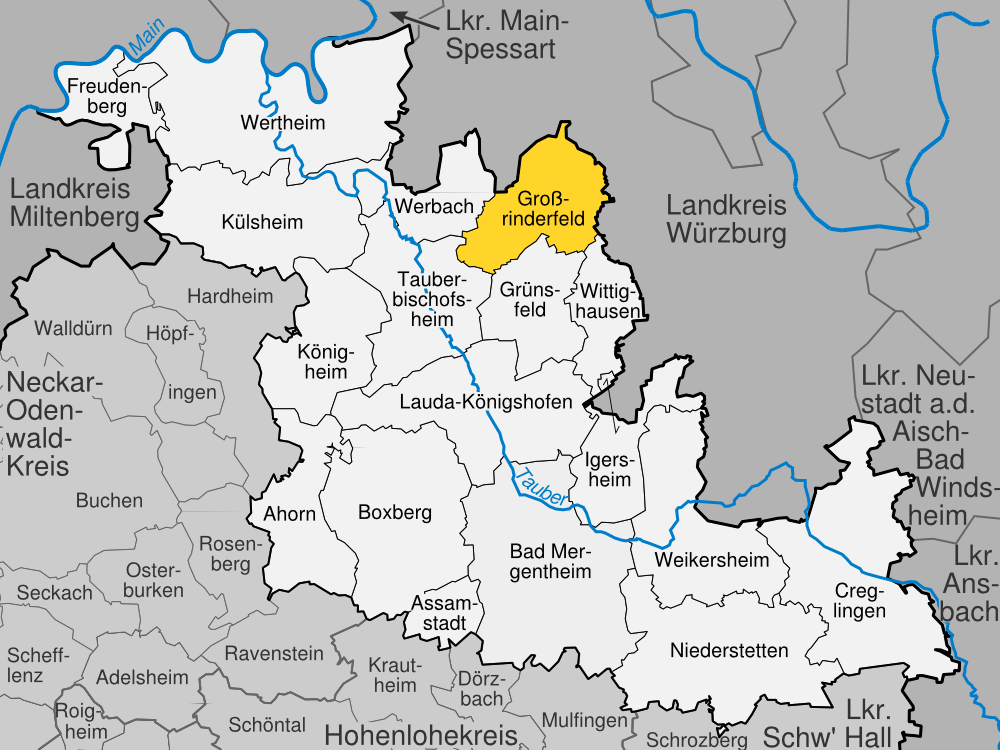 position of Großrinderfeld within the Main-Tauber-Kreis, Baden-Württemberg, Germany